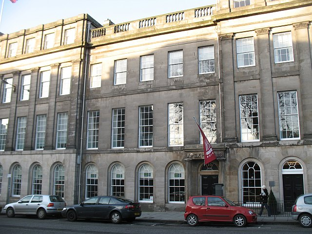 Apex Hotel, 23-27 Waterloo Place Formerly Edinburgh City Council offices. I used to buy my parking permit here.